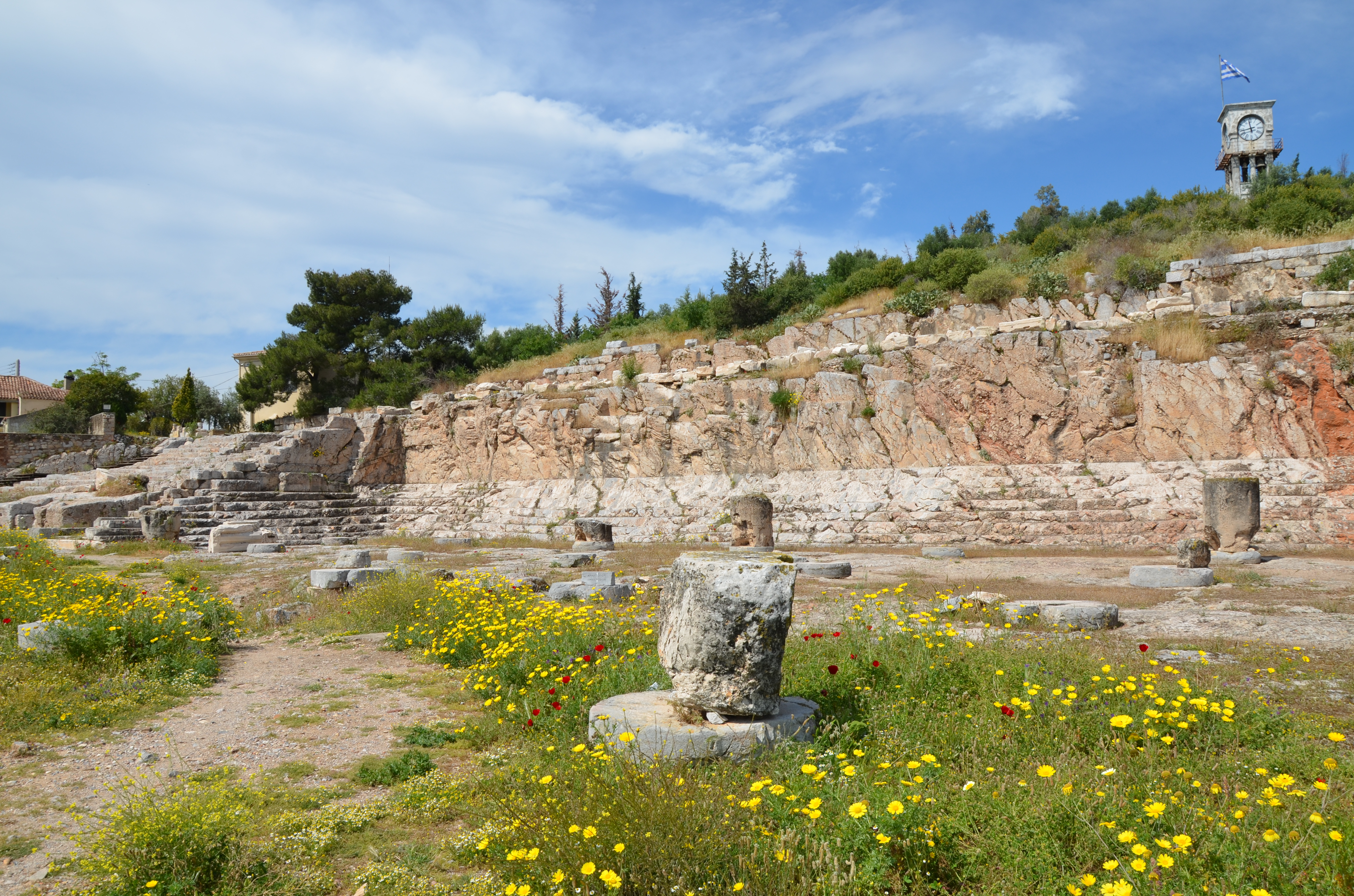 Overall view of the Telesterion, the "place for initiation", Eleusis